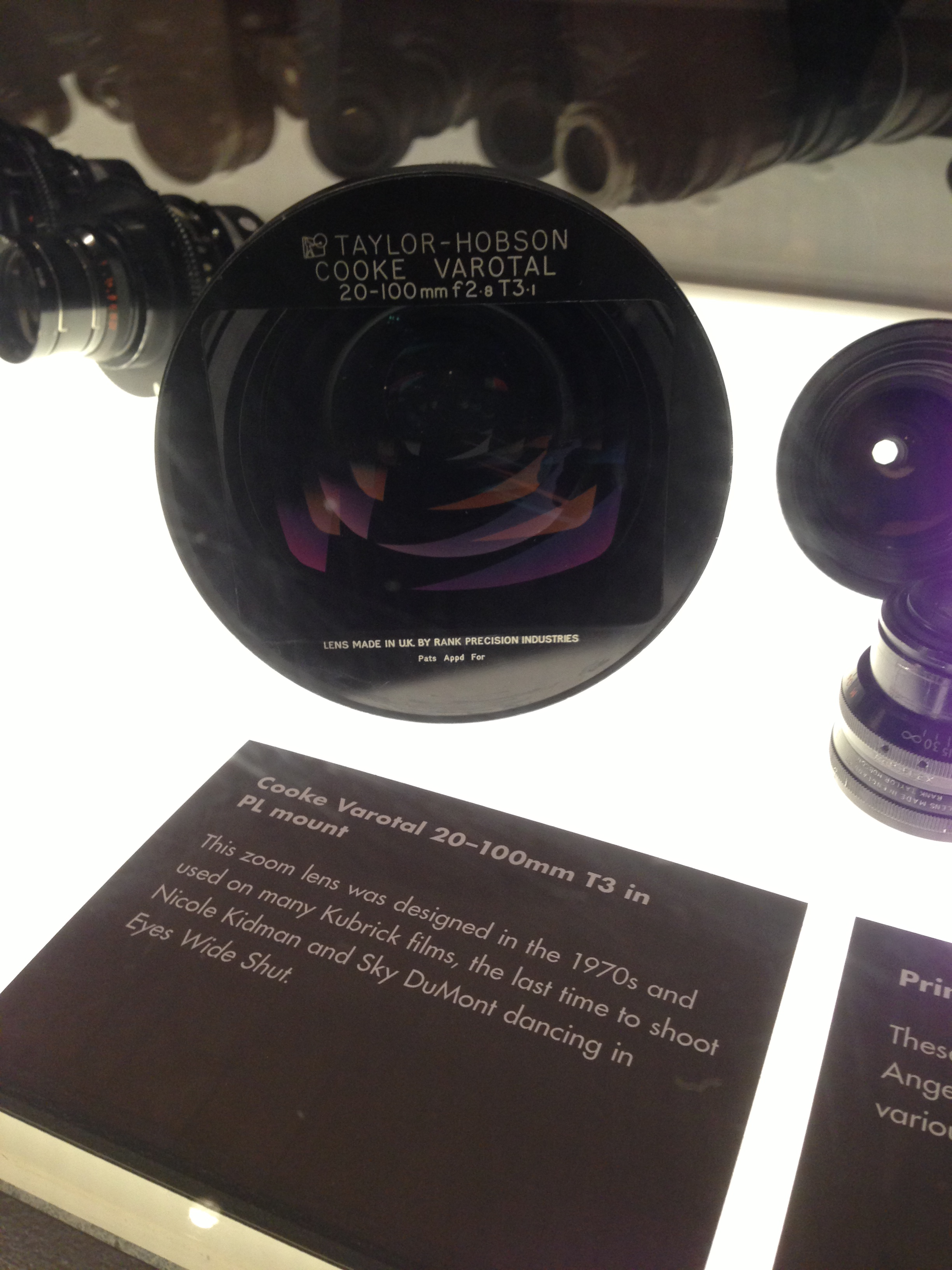 Stanley Kubrick exhibit at Los Angeles County Museum of Art.